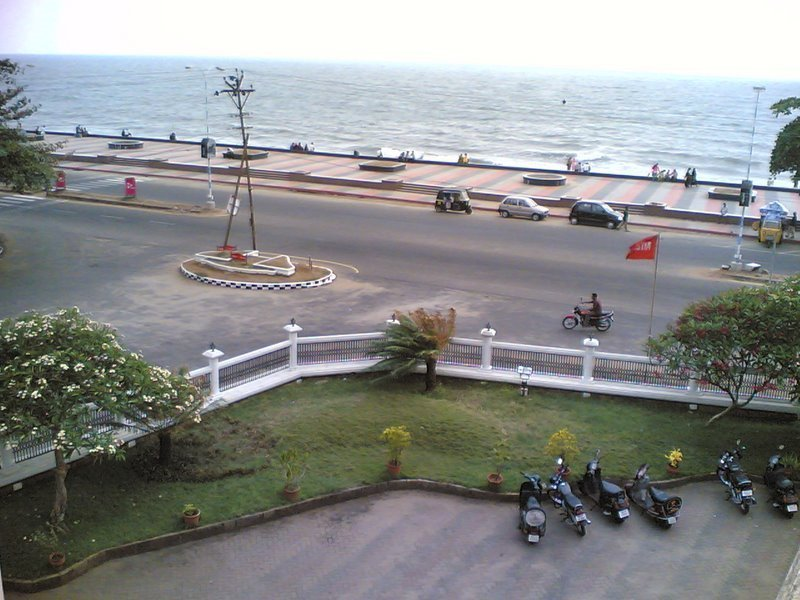 Beach in or near Kozhikode, India.